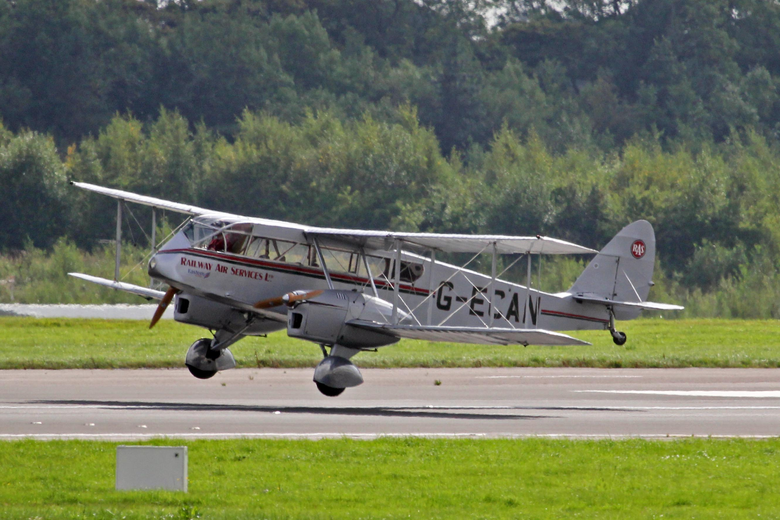 One of the 'Vintage' visitors to Manchester Airport's (MAN) 75th Anniversary day.